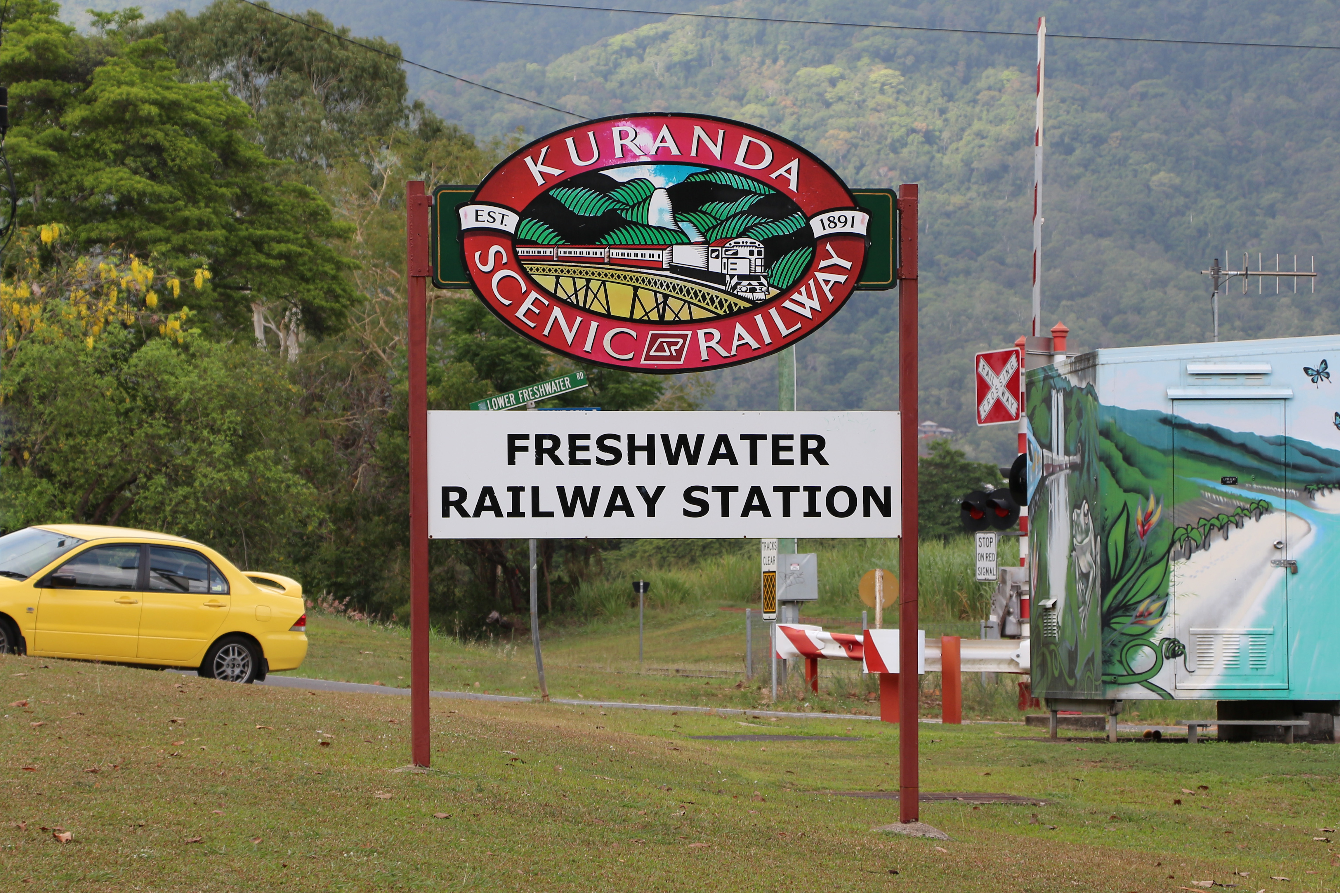 Freshwater Railway Station sign, Queensland, Australia